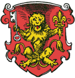 Fig. 310. — Arms of Sebastian Schärtlin von Burtenbach. "Gules, a lion sejant affronté erect, double-queued, holding in its dexter paw a key argent and in its sinister a fleur-de-lis". The arms typify his victorious assault on Rome in 1527, and his striking successes against France in 1532.